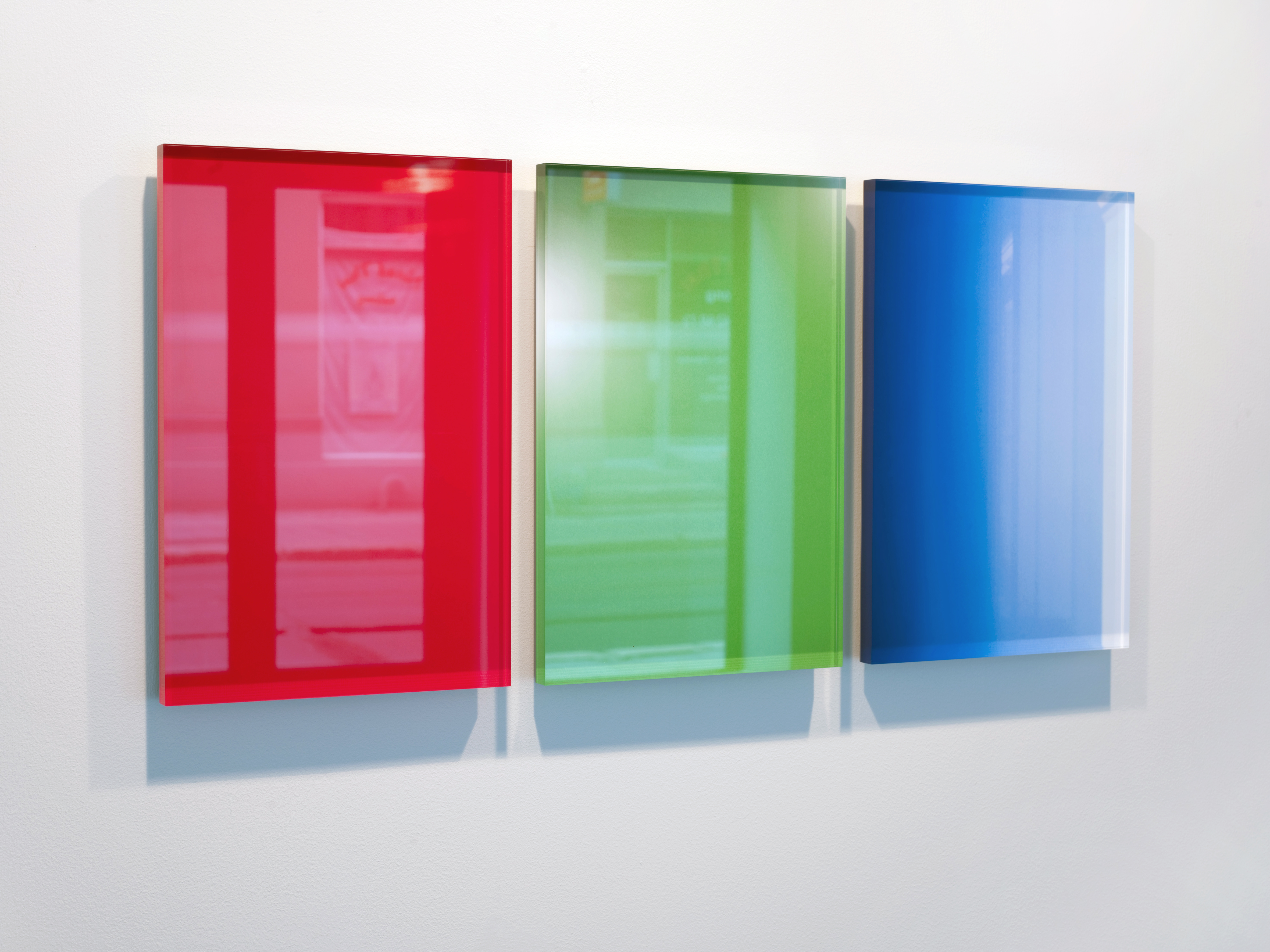 Marko Vuokola, RGB, 1996-2012. Photographic triptych mounted behind thick acrylic sheets.